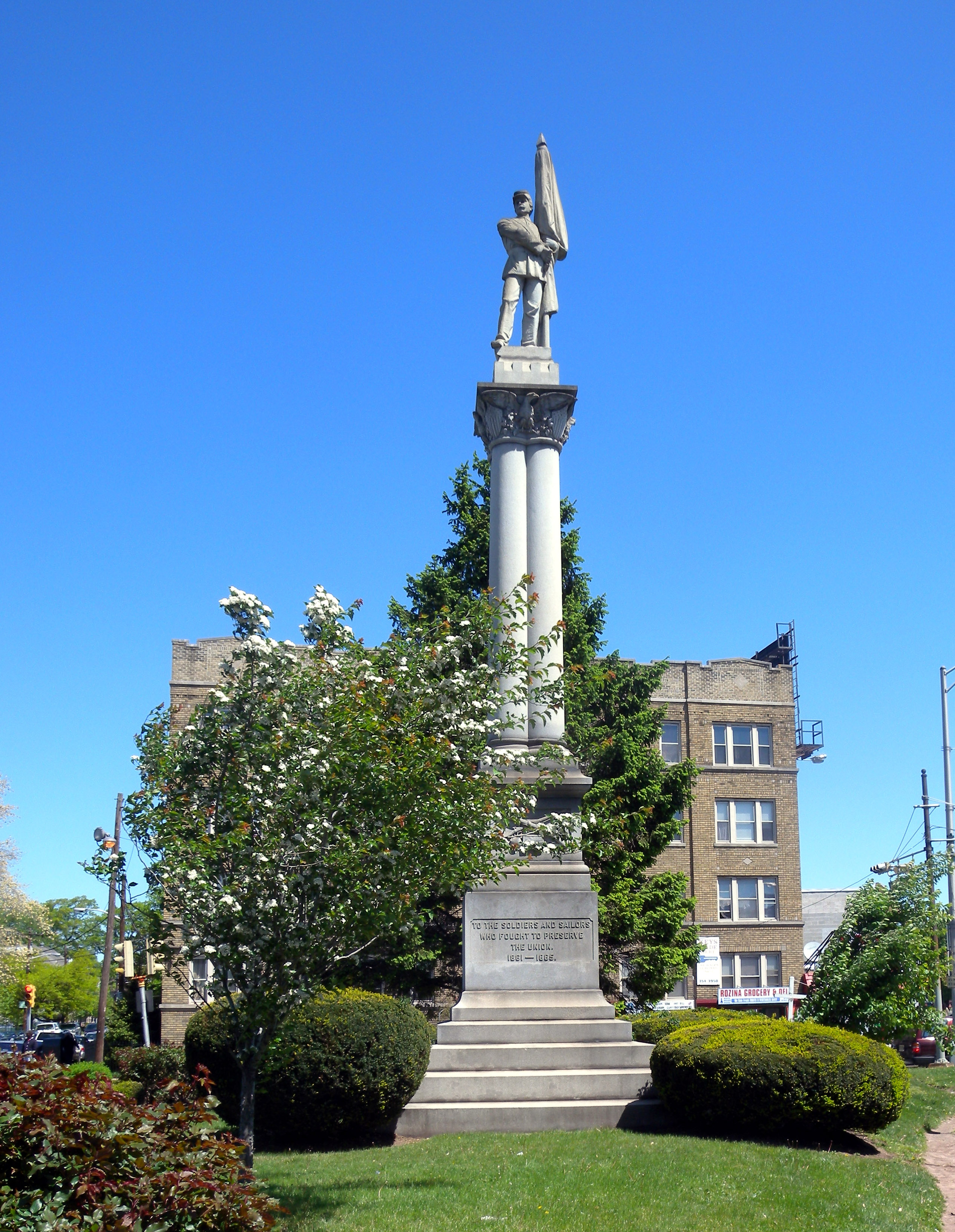 Looking north at war memorial on a sunny morning.